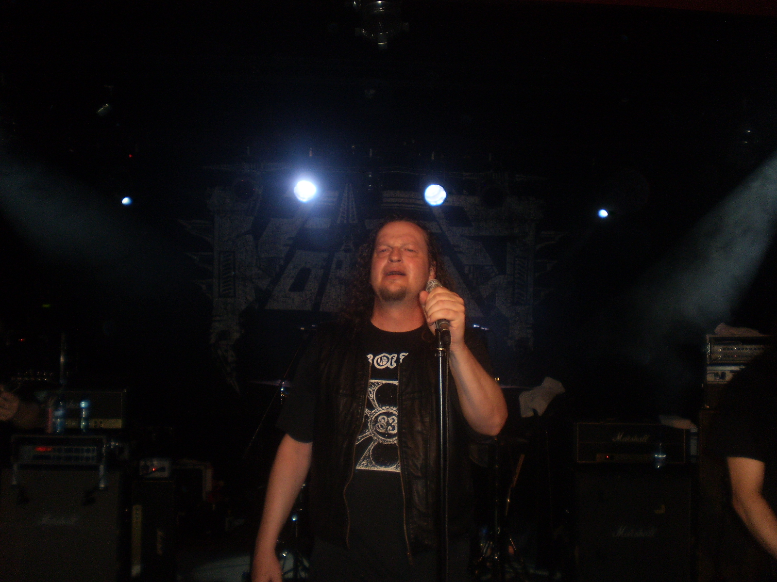 Denis "Snake" Bélanger, live show at Firlej, Wroclaw, Poland, 2011-05-14